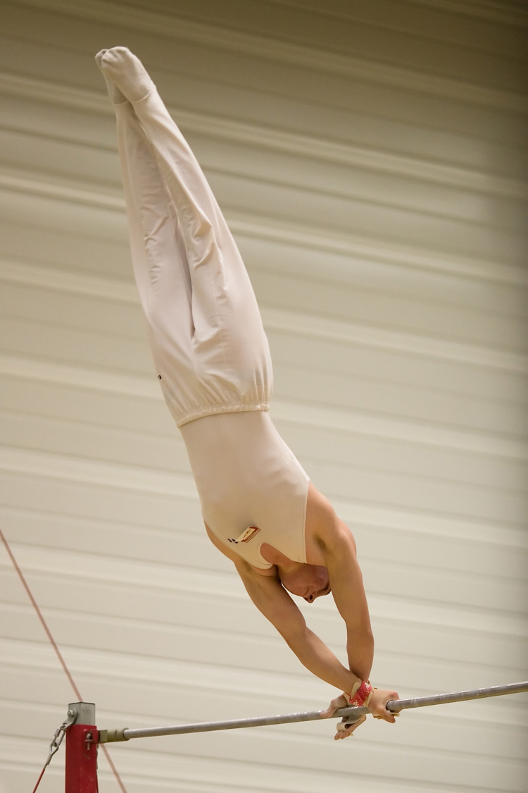 Figure on horizontal bar.